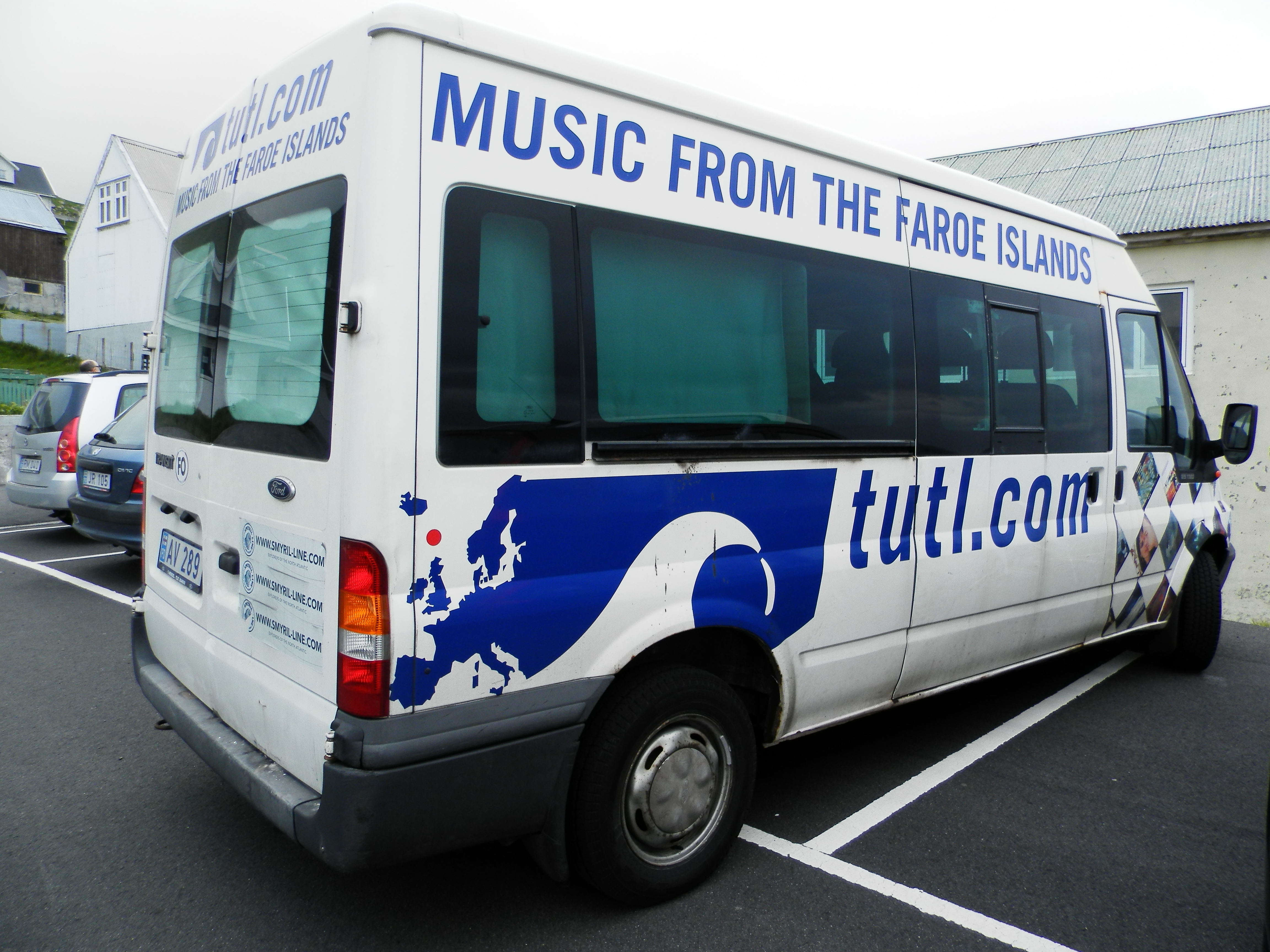 The Tutl buss in Sumba, Faroe Islands. Tutl is a Faroese record label.